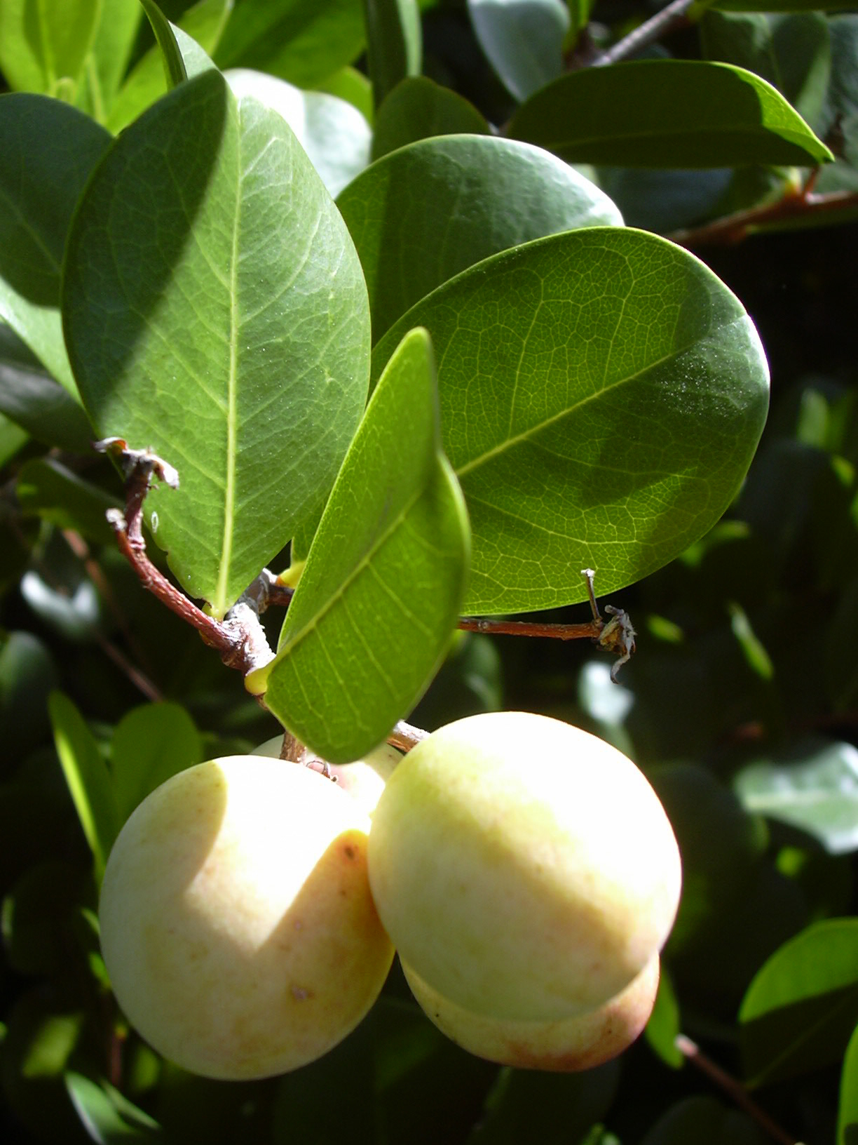 Chrysobalanus icaco (fruit). Location: Florida, Turtle Beach